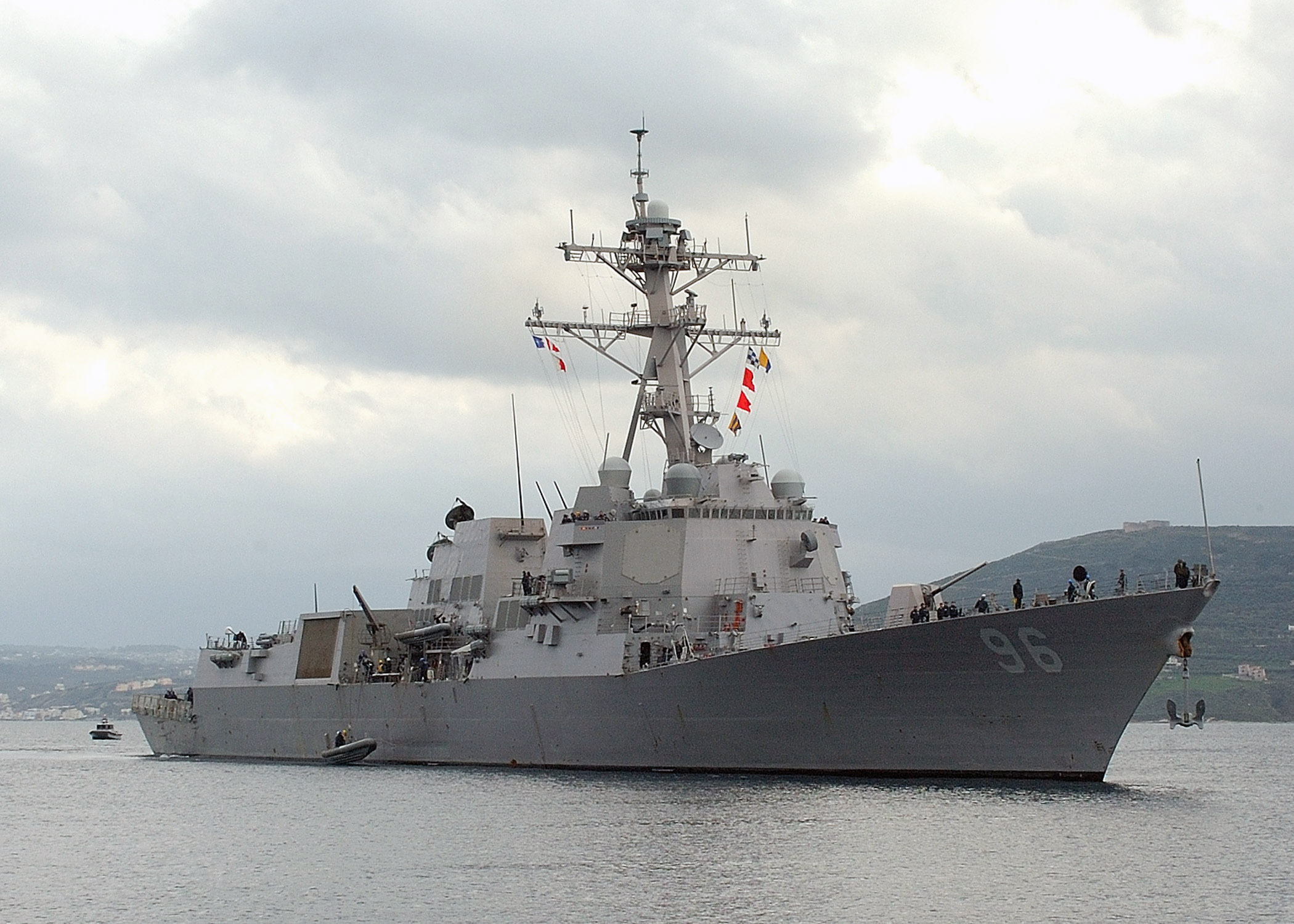 USS Bainbridge (DDG 96) arrives at NATO Pier Facility in Souda harbor